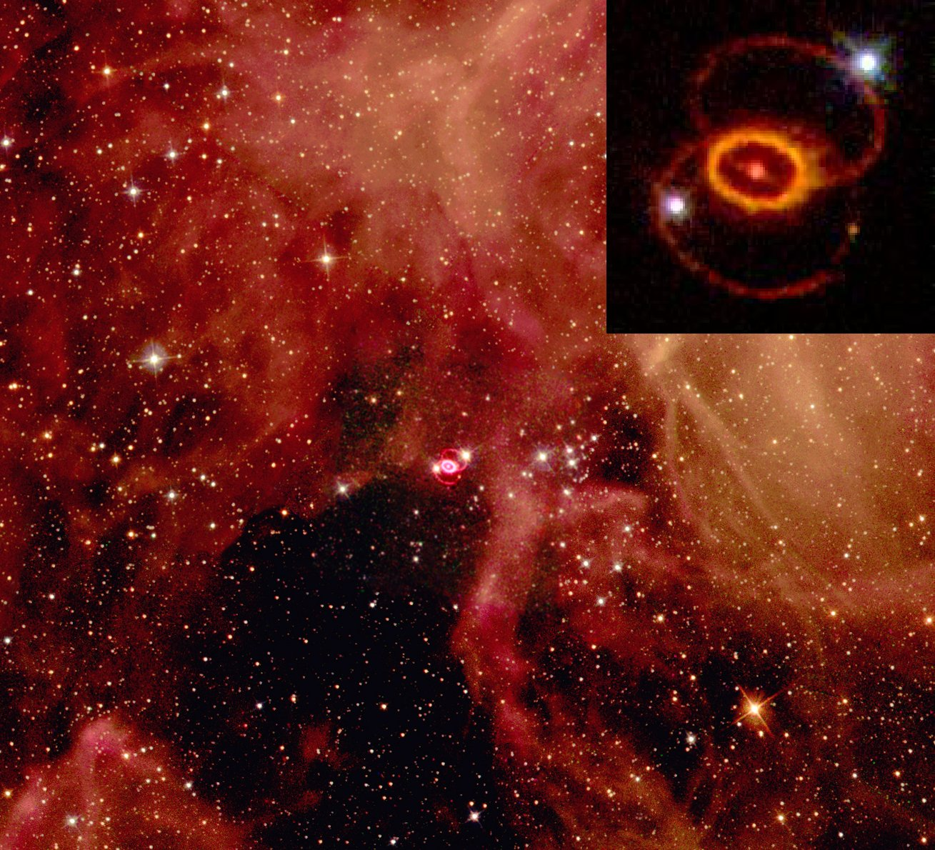 1987A supernova remnant near the center. Composite of two public domain NASA images taken from the Hubble Space Telescope. Edited with the GIMP. Uploaded to Wiki by User:Maveric149, higher resolution version uploaded by User:JamesHoadley